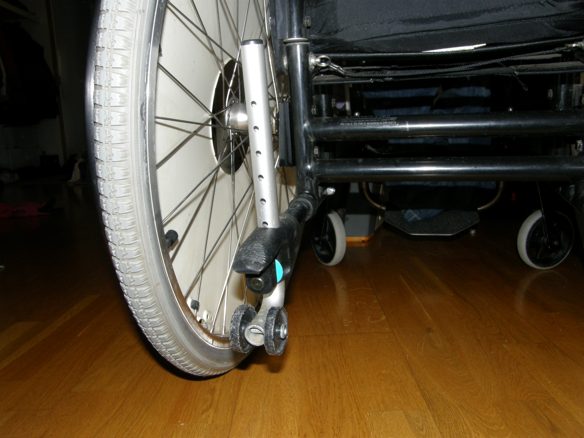 Wheelchair parts (rear)